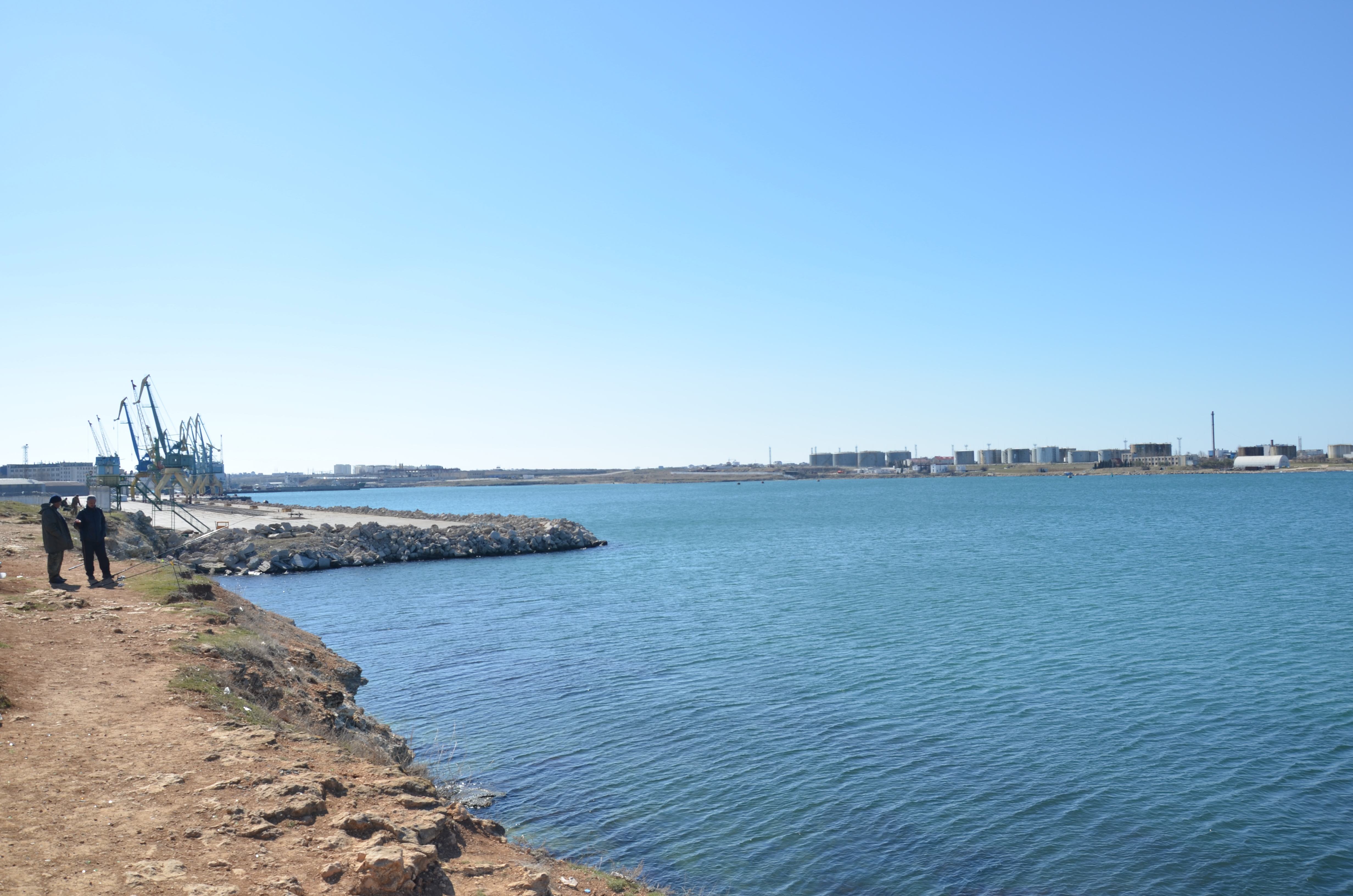 Kamyshova Bay, industrial zone